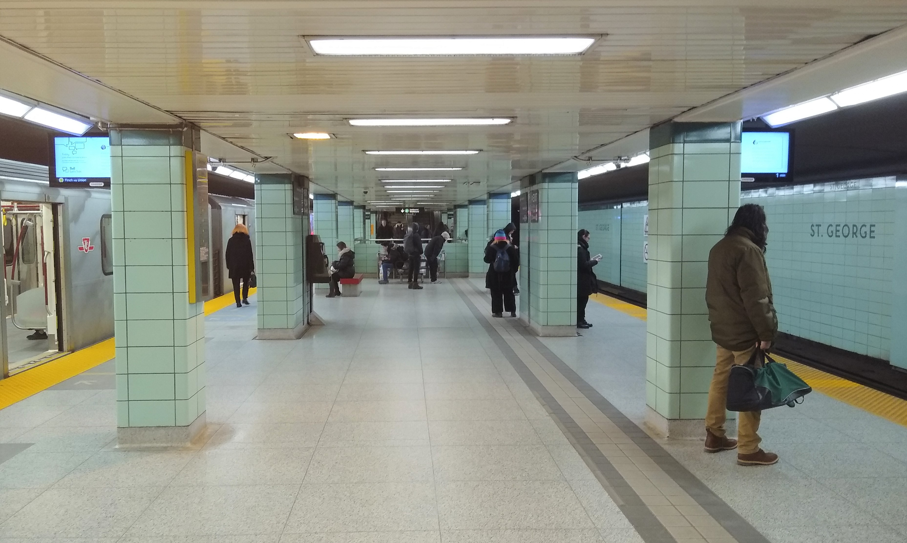 The Yonge–University platform at the St. George subway station in Toronto, Canada.